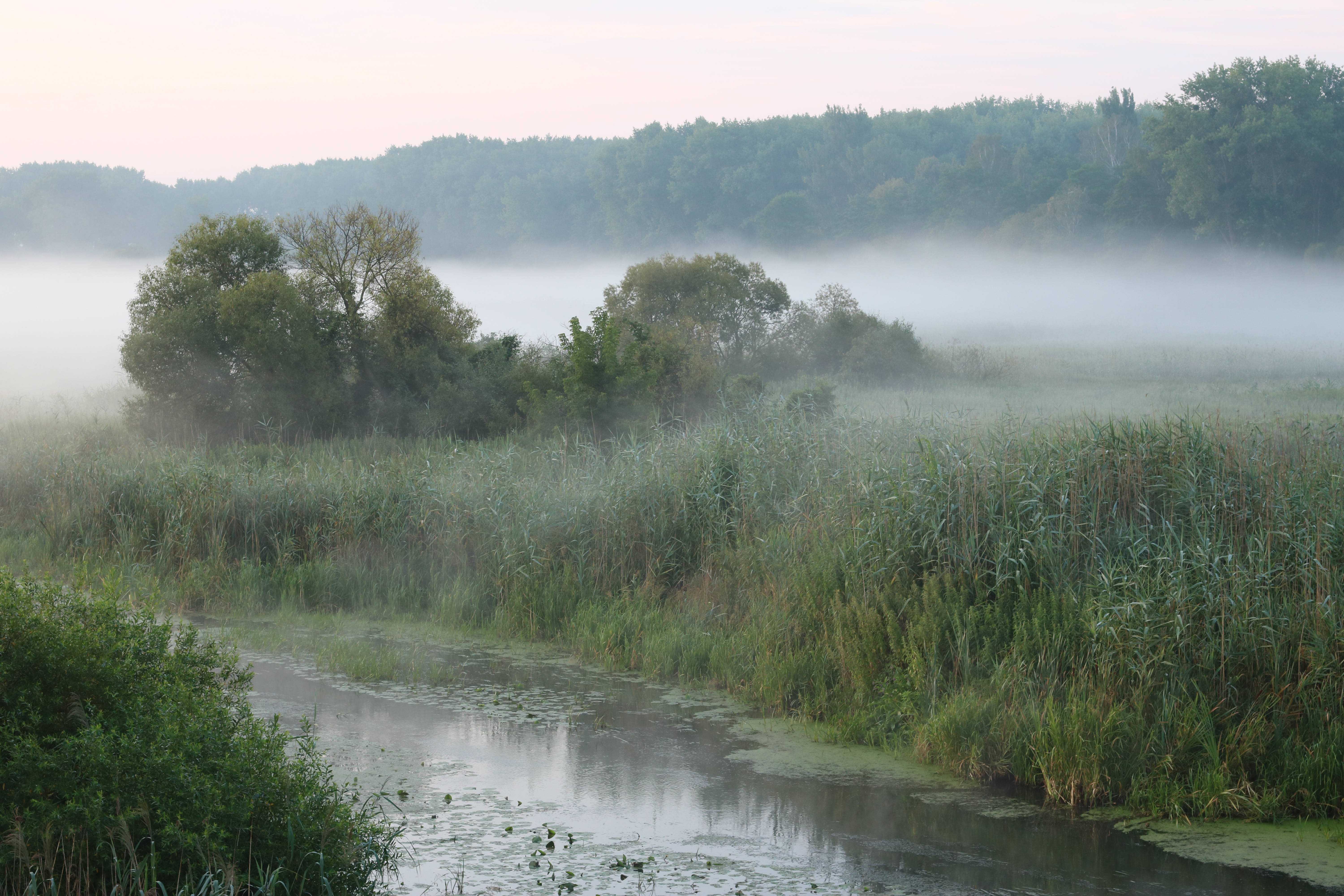 Desna river, feeder of the Southern Bug, at meadow. Ukraine, Vinnytsia Raion